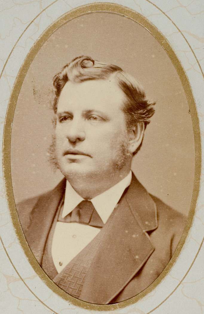 John Thomas Playfair (1832–1893) from album of portraits collected by John William Richard Clarke